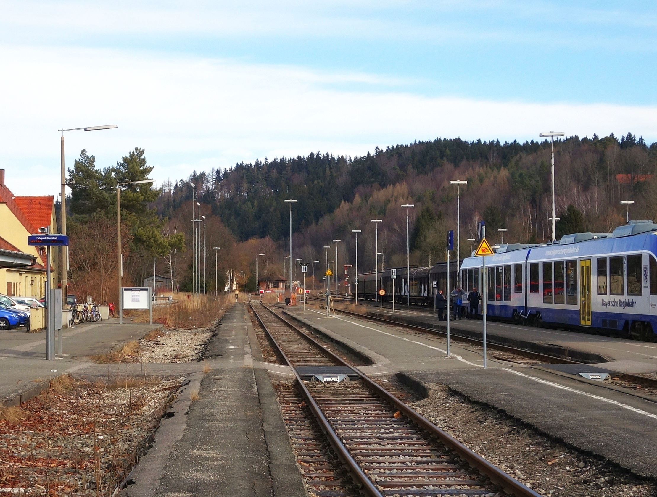 Railway station of Schongau (Bavaria, Germany)